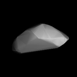 3D convex shape model of 4265 Kani, computed using light curve inversion techniques. J. Hanuš, J. Ďurech, M. Brož, B. D. Warner (June 2011). "A study of asteroid pole-latitude distribution based on an extended set of shape models derived by the lightcurve inversion method". Astronomy and Astrophysics 530: A134. ISSN 0004-6361. arXiv